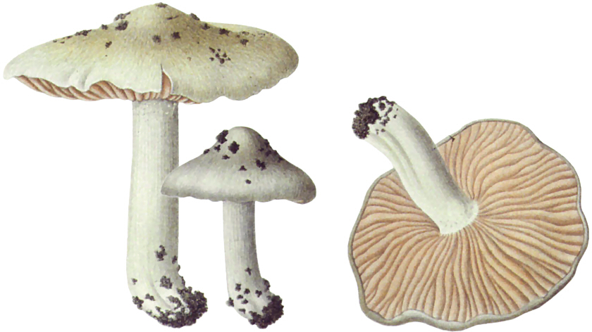 Entoloma saundersii